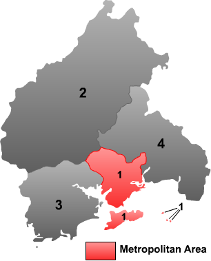 Map of Yangjiang in Guangdong province.